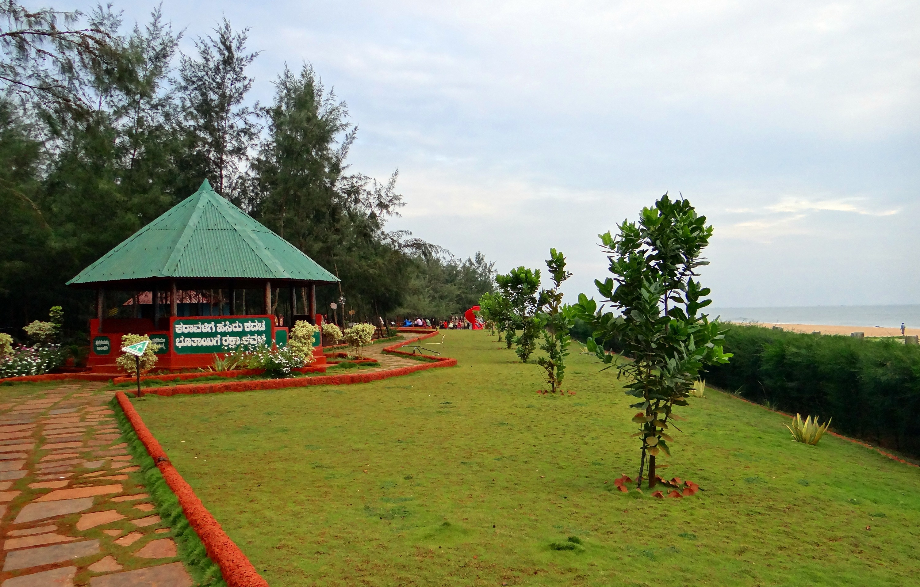 Kasarkod beach park, Honnavar, Karnataka, India.